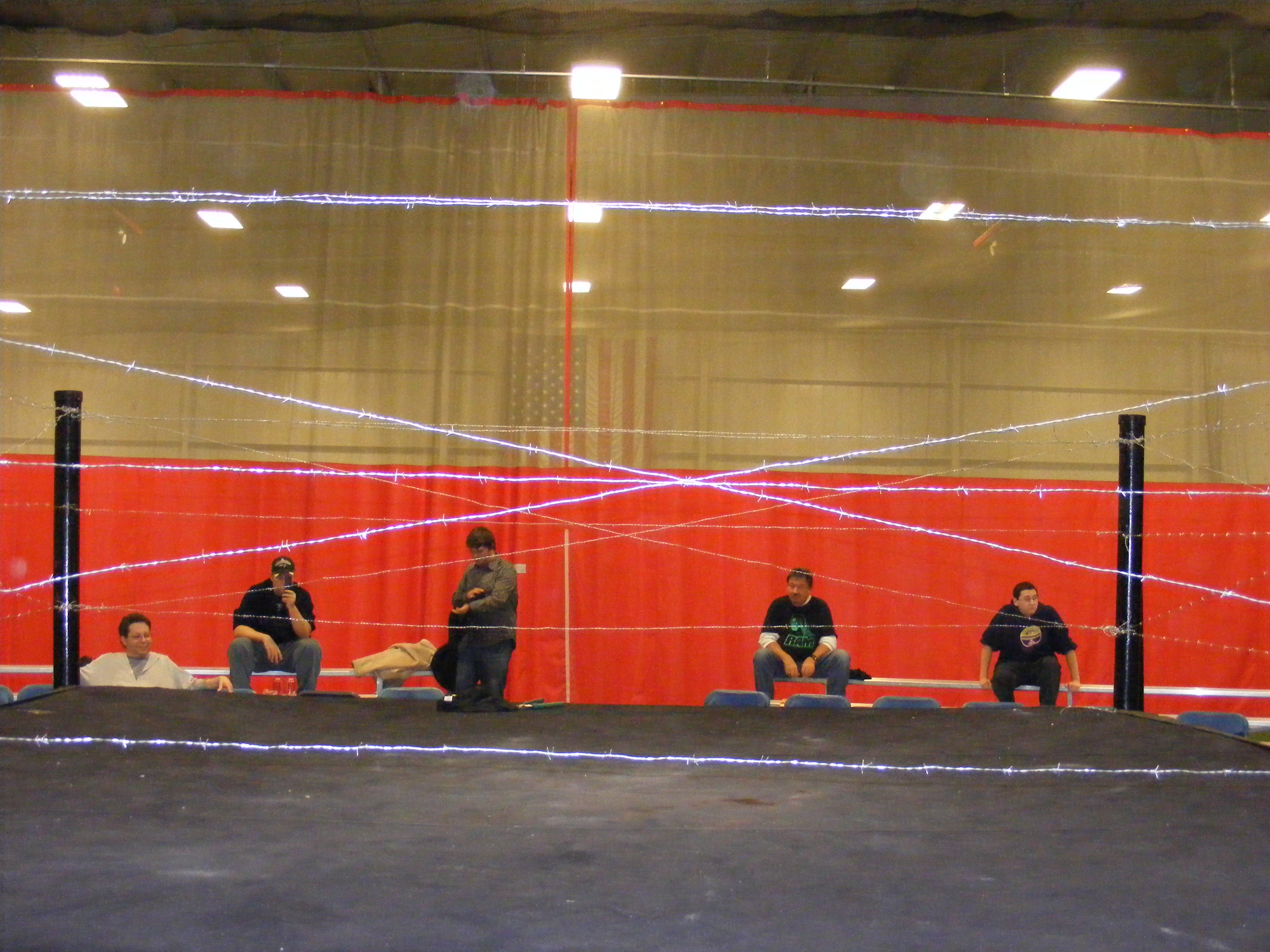 A Barbed Wire match; the ring hung with Barbed Wire instead of ropes at a Combat Zone Wrestling show on October 16, 2010 in Tyngsboro, MA.